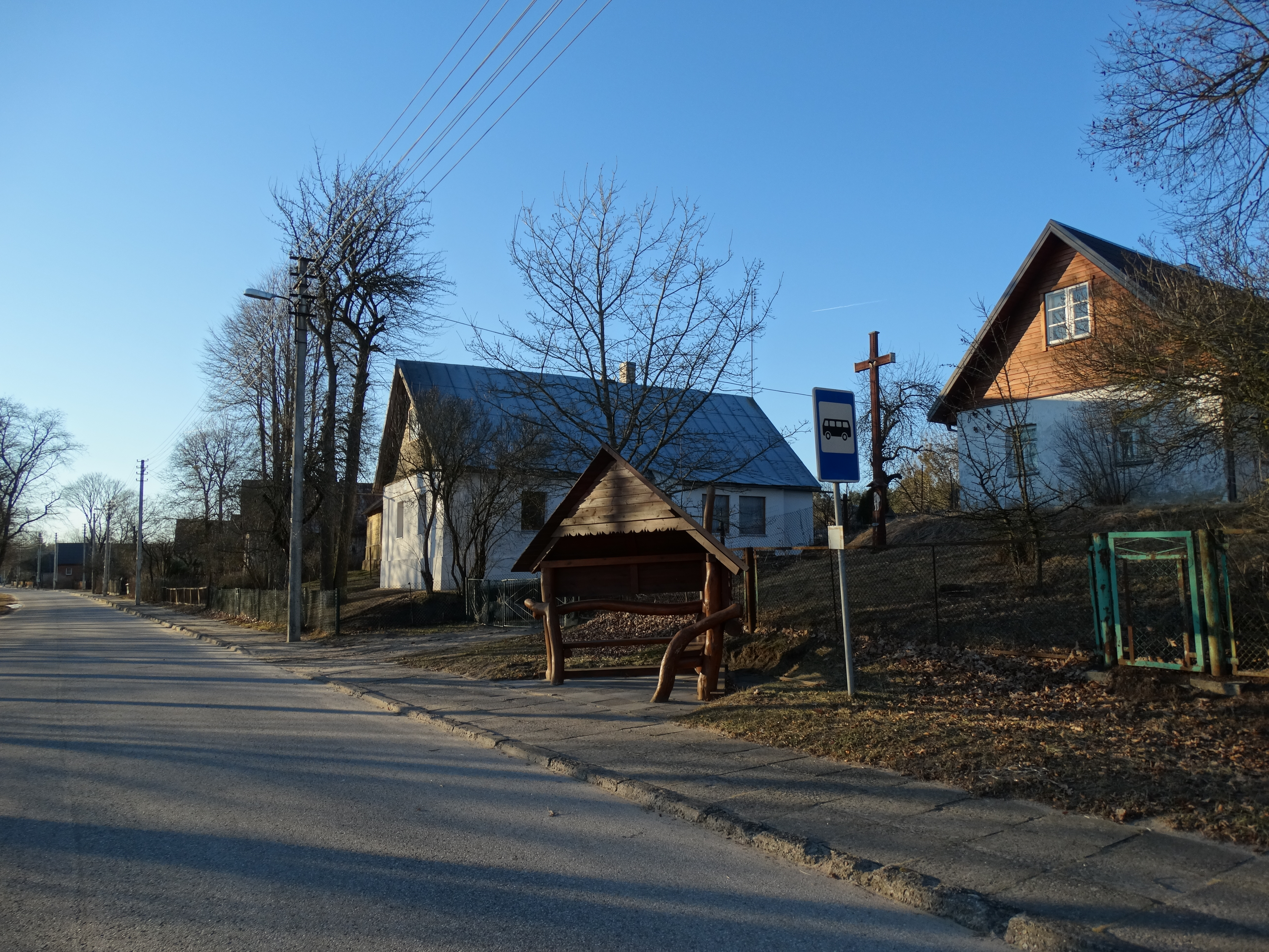 Švendubrė, Druskininkai Municipality, Lithuania